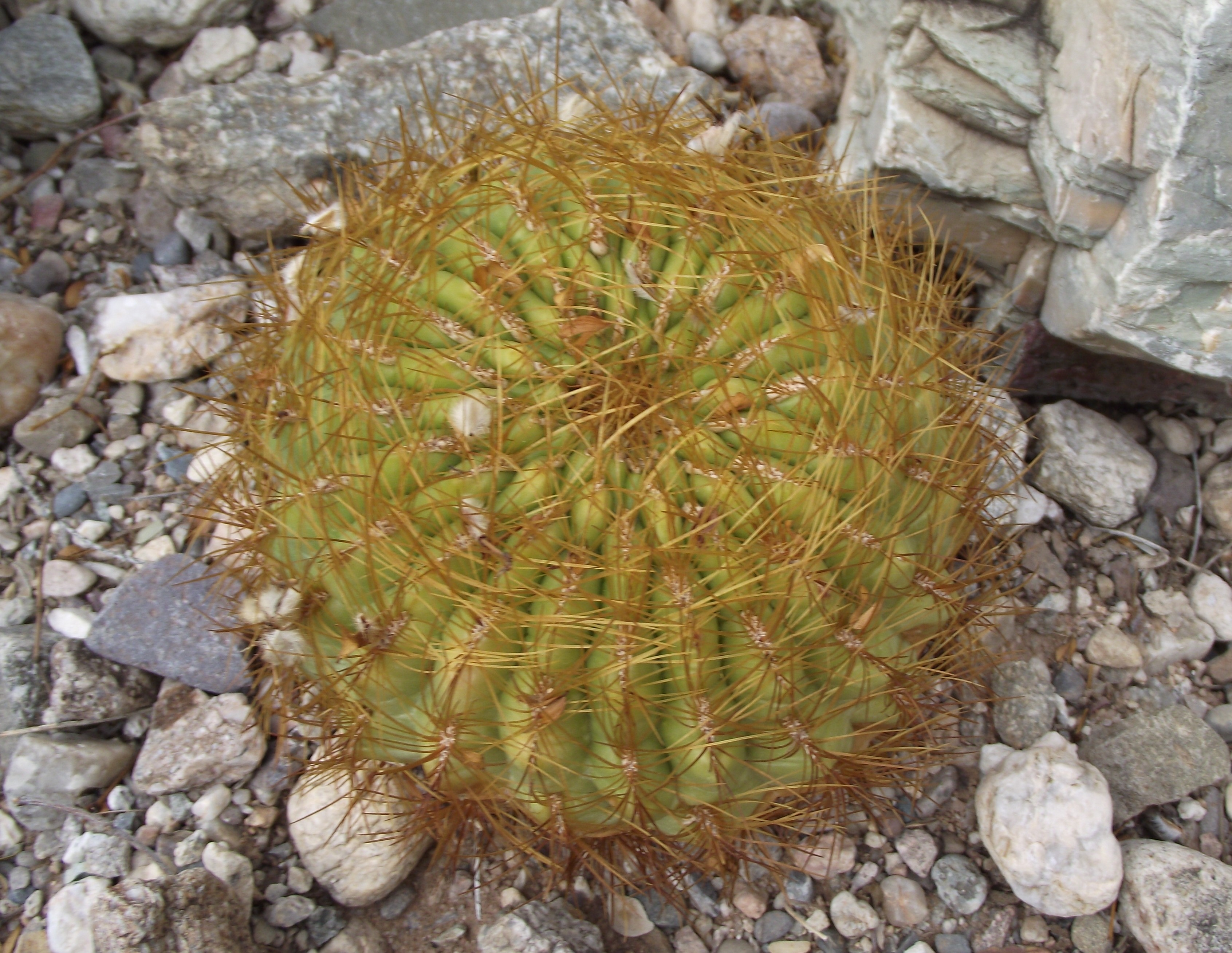 Oroya borchersii at Tucson Botanical Gardens, Tucson, Arizona, USA. Identified by sign.